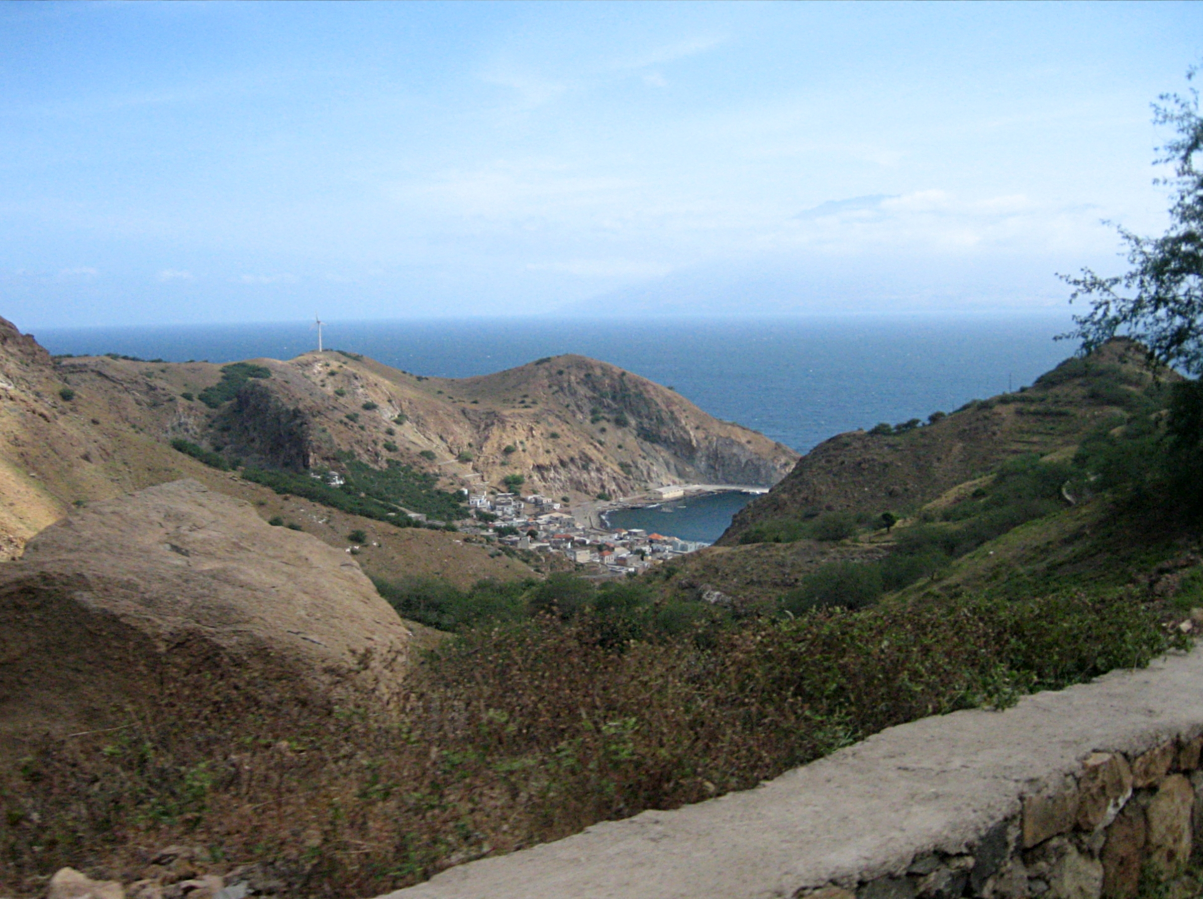 The port of Furna situated in a flooded volcanic crater seen from the new road to Vila Nova Sintra.